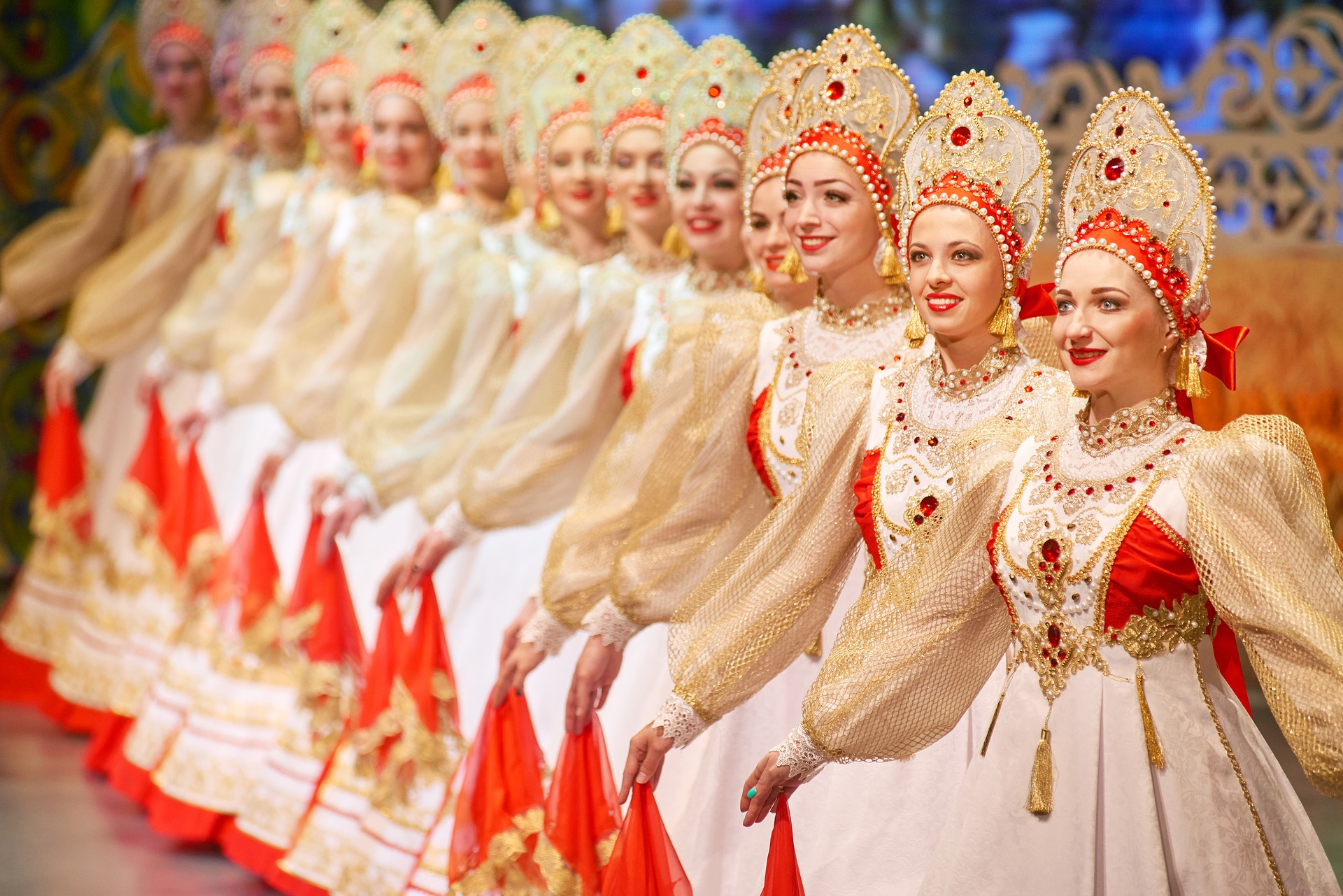 Russian folklore Russian dances and kokoshnik